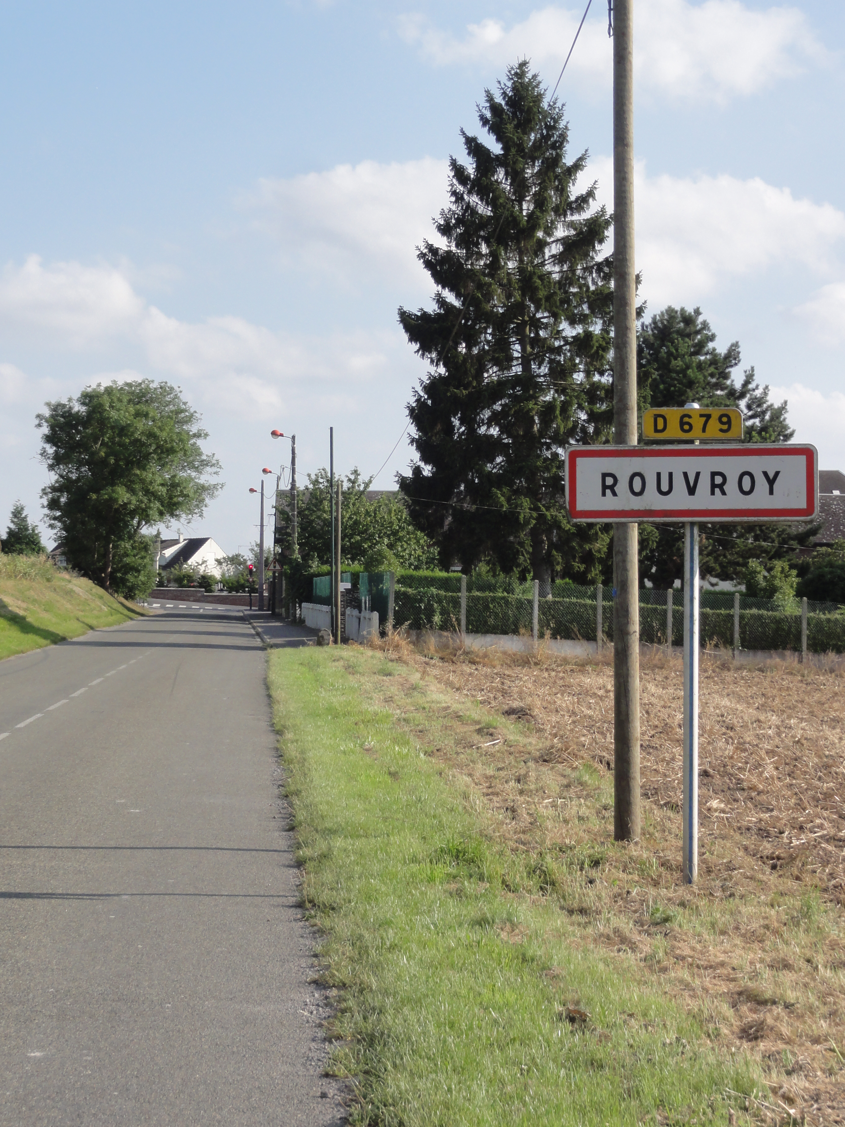 Rouvroy (Aisne) city limit sign